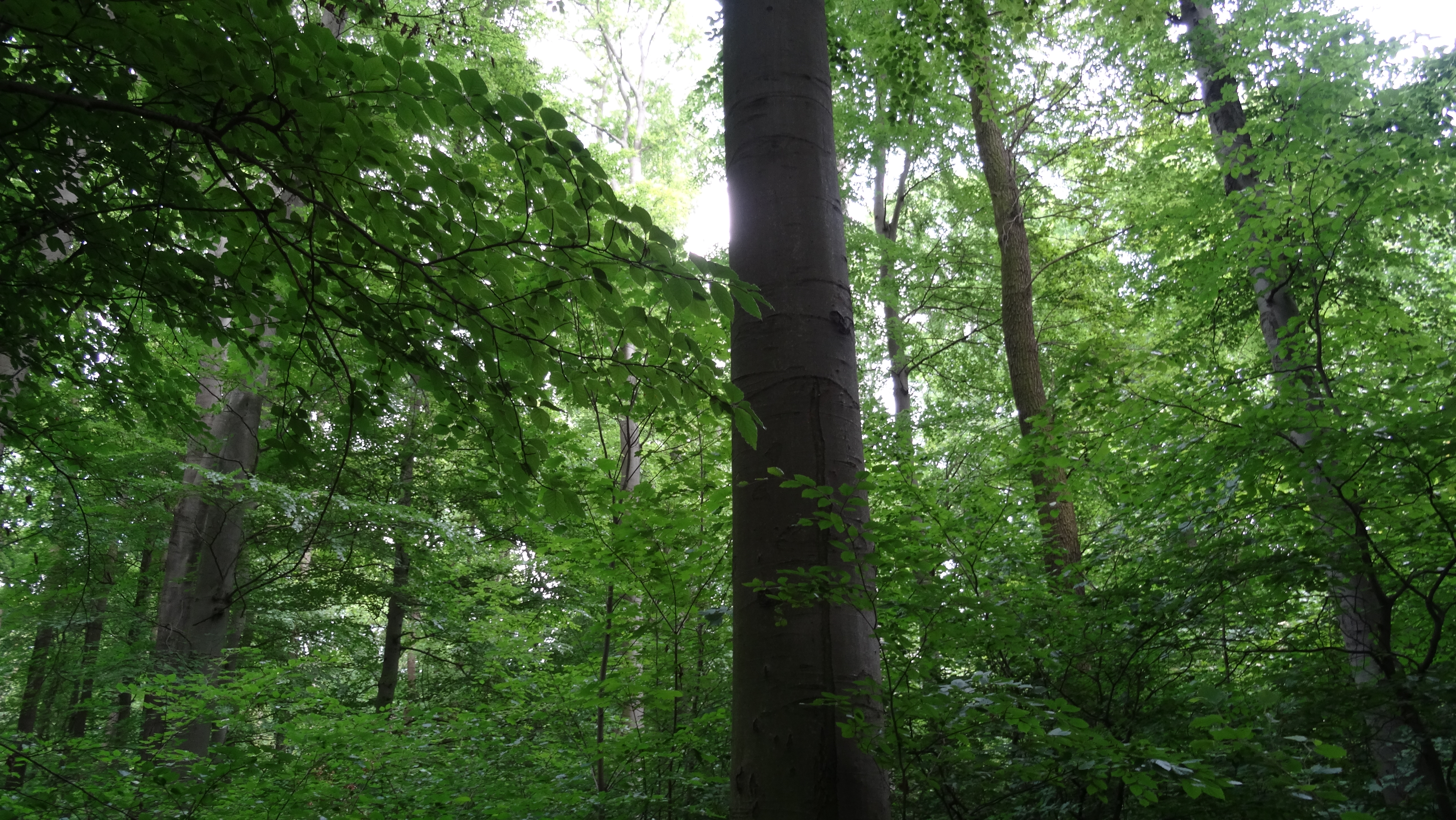 Deciduous trees in nature reserve Haseder Busch, county / city of Hildesheim, Germany